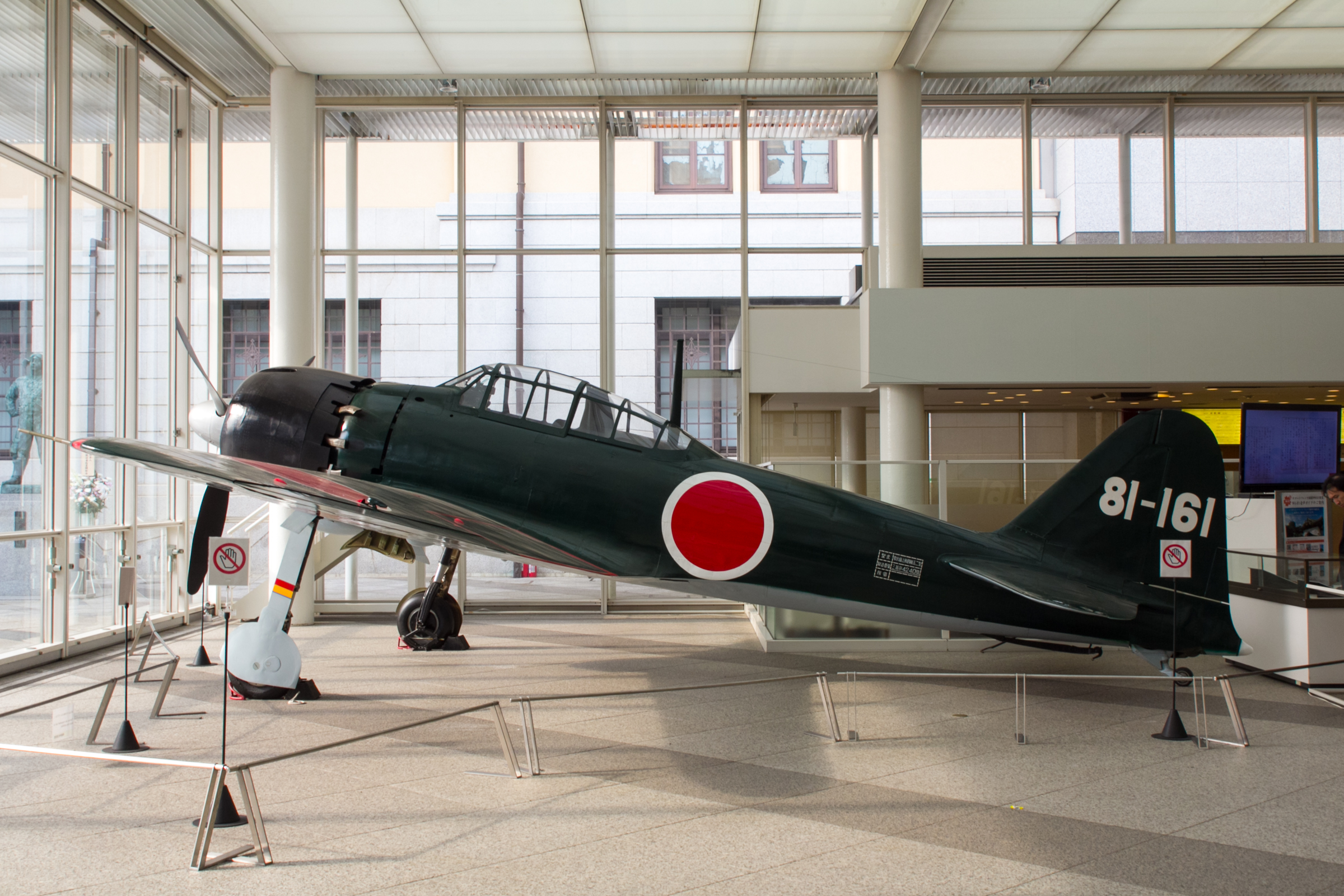 Mitsubishi A6M5 in the Yushukan, Tokyo